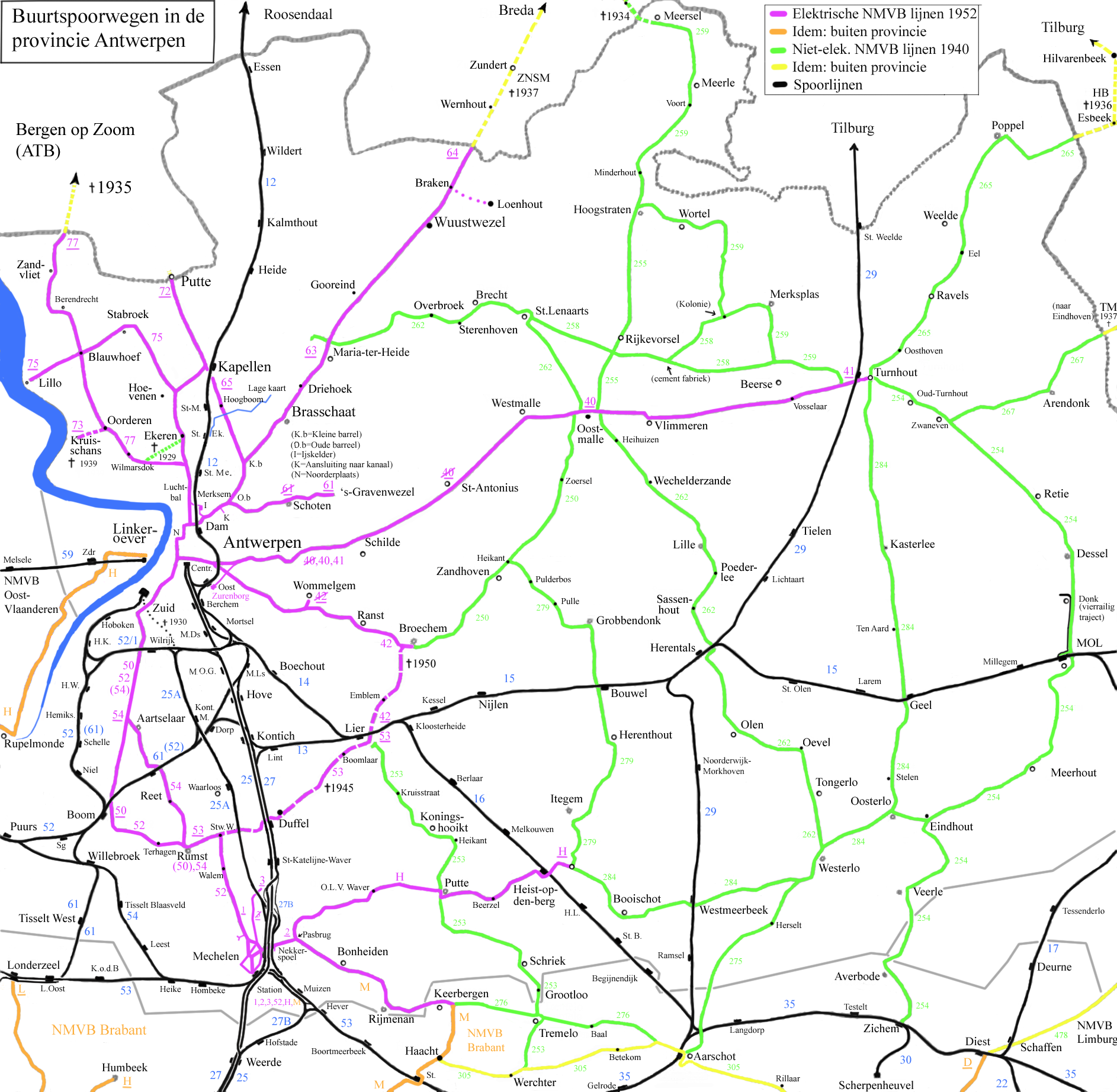 Map off the vicinal railways in the province off Antwerp. Purple lines = electrified lines in 1952 Brown lines = idem, but outside the province Green lines = non-electrified lines in 1940 Yellow lines = idem, but outside the province